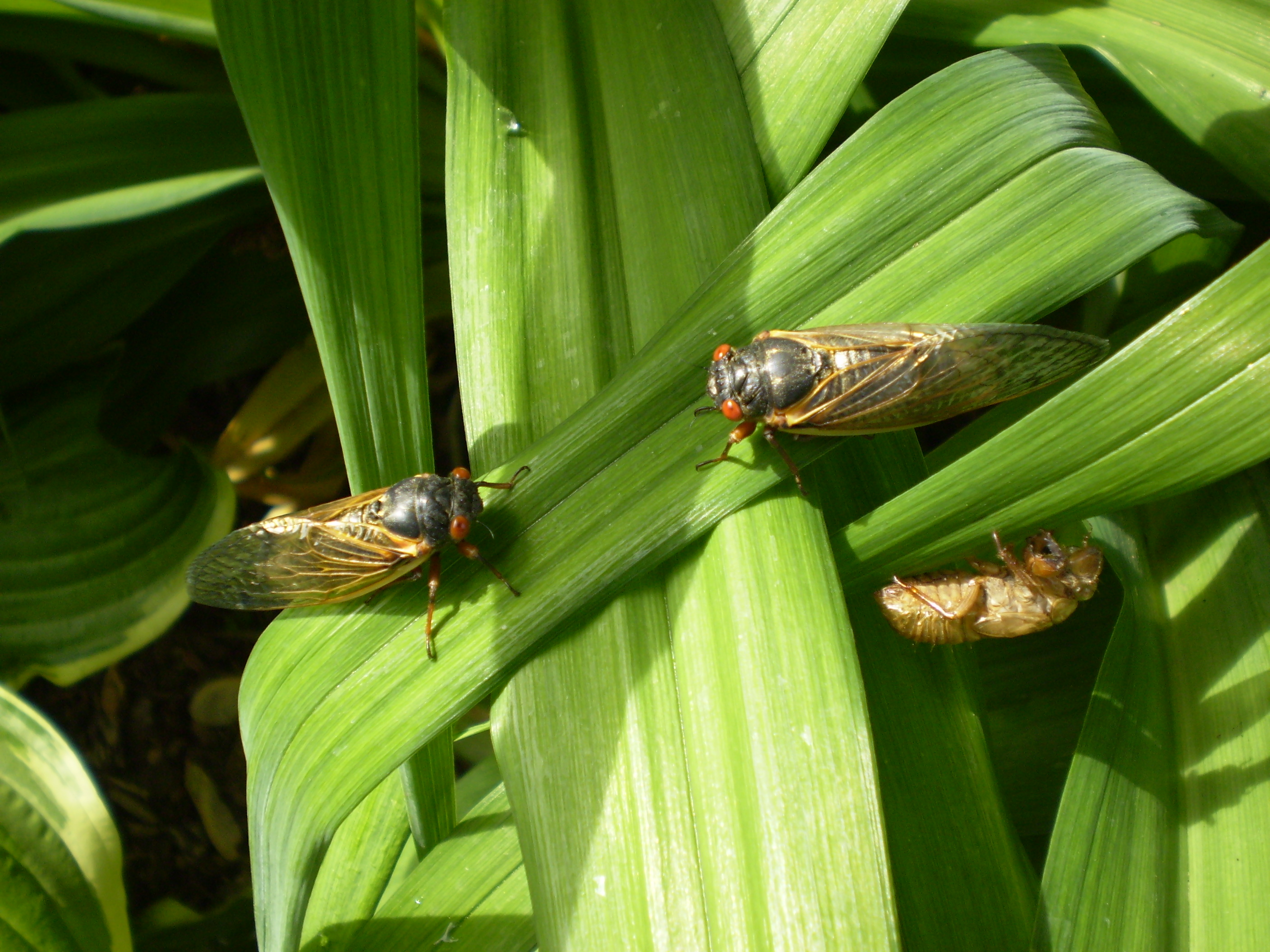 Periodical cicadas on daylily leaves. United States of America, 2007